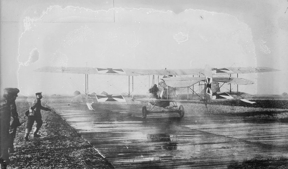 A German Otto pusher biplane taking off from a wooden runway early during the First World War.